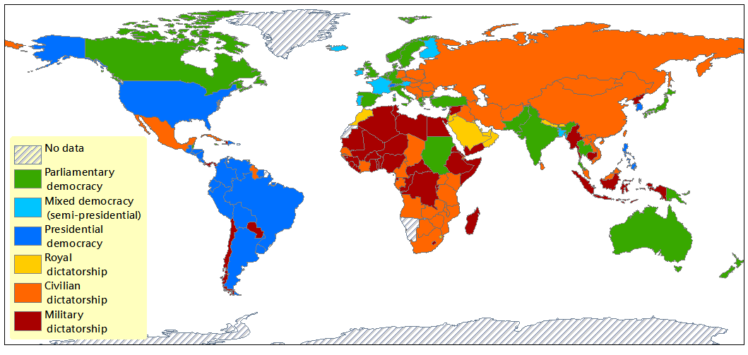 Democracies and dicatatoships in 1988, based on DD index